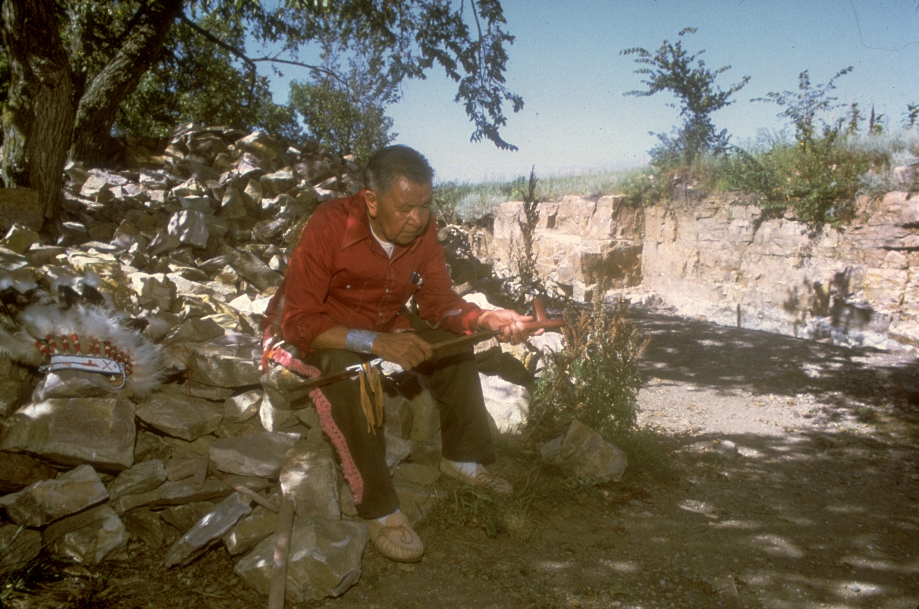 Lacota native american demonstrating his craft in making pipes at Pipestone National Monument, Minnesota, USA